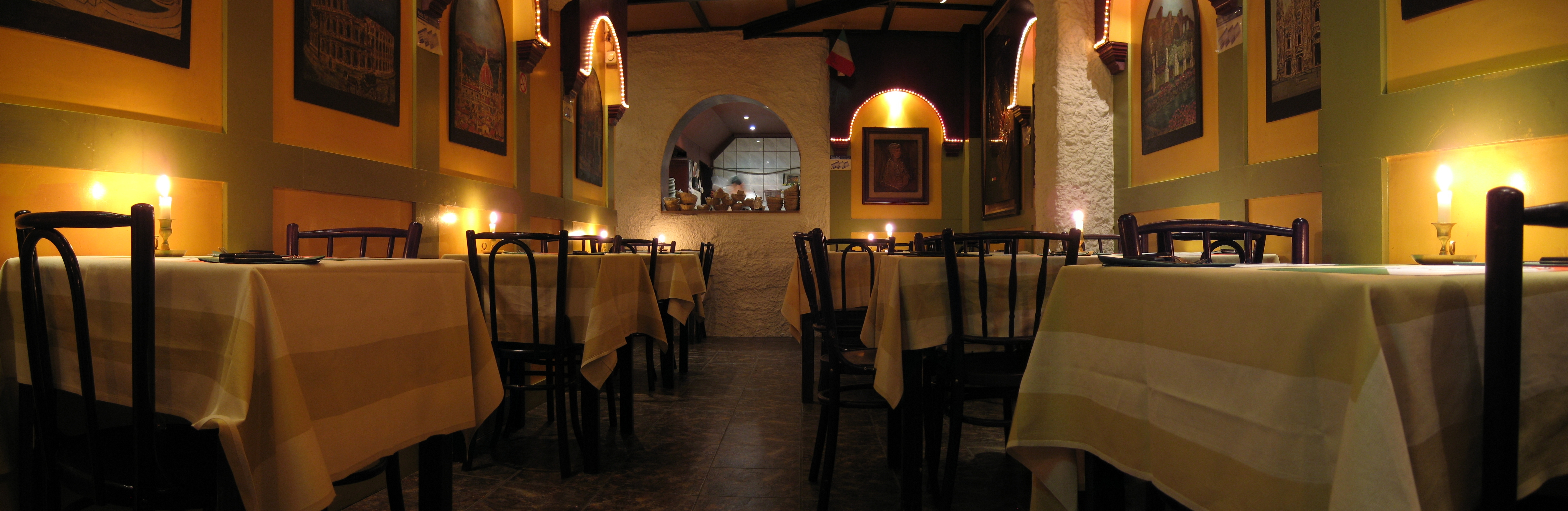 Interior of a pizzeria in the Dutch city of Groningen.